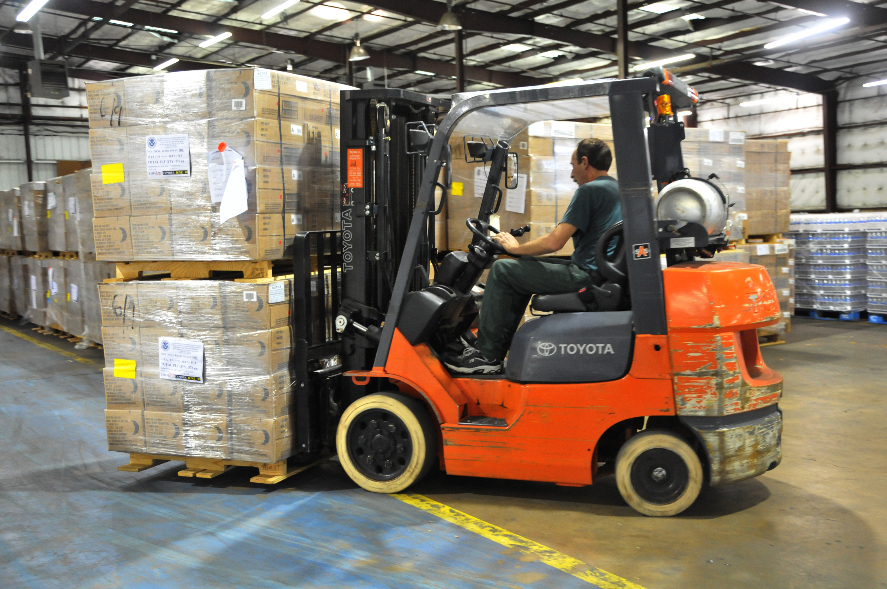 Tyler, TX, September 2, 2008 -- A member of the Texas Forest Service moves a batch of MRE (meals ready to eat) in a warehouse in Tyler, TX. The warehouse is being used to handle basic supplies of water and MRE (meals ready to eat) for distribution to residents affected by Hurricane Gustav. Photo by Patsy Lynch/FEMA